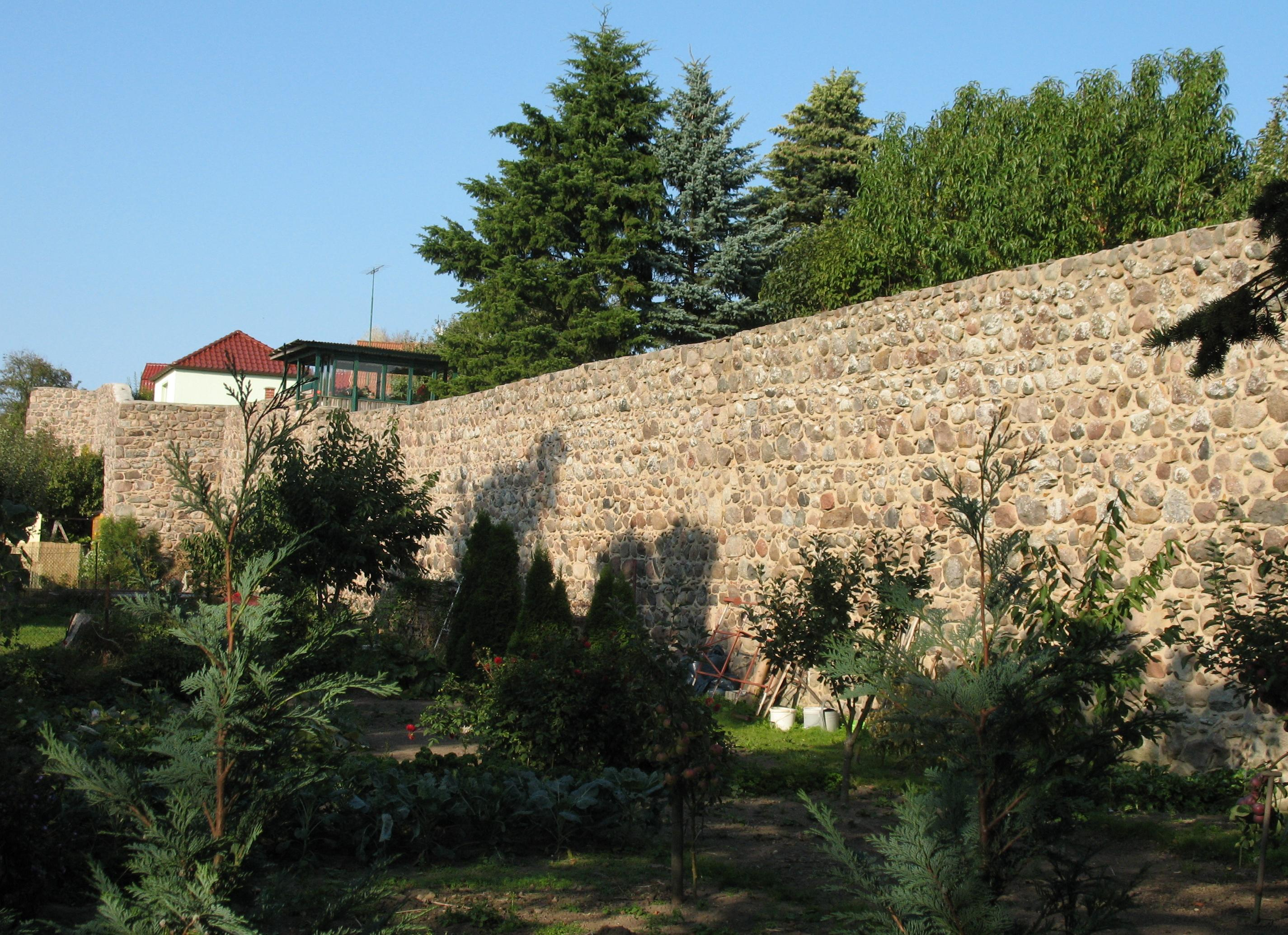 City wall in Nordwestuckermark-Fürstenwerder in Brandenburg, Germany